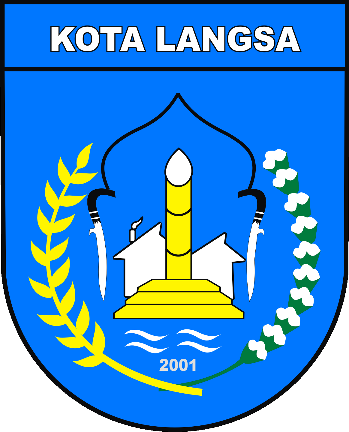 Shield of the city of Langsa (Indonesia)